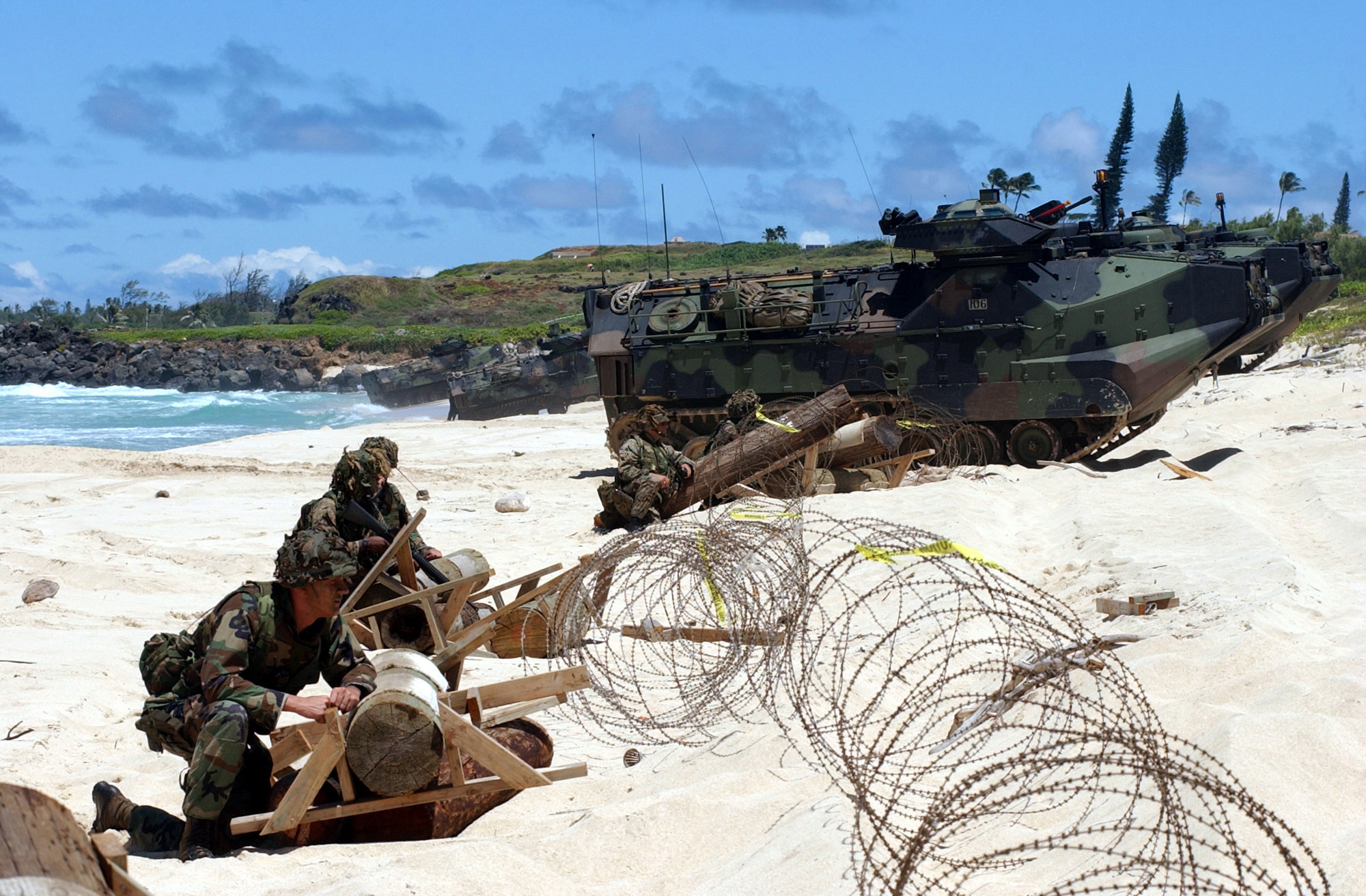 US Marine Corps (USMC) Marines, 3rd Battalion, 3rd Marine Regiment and their AAV7A1 Assault Amphibian Vehicles (AAV) land on the beach following a mechanized raid in support of exercise Rim of the Pacific 2004 (RIMPAC 2004). RIMPAC is the largest international maritime exercise in the waters around the Hawaiian Islands. This years exercise includes seven participating nations; Australia, Canada, Chile, Japan, South Korea, the United Kingdom and the United States. RIMPAC is intended to enhance the tactical proficiency of participating units in a wide array of combined operations at sea, while enhancing stability in the Pacific Rim region.Location: Marine Corps Base Hawaii (USA)